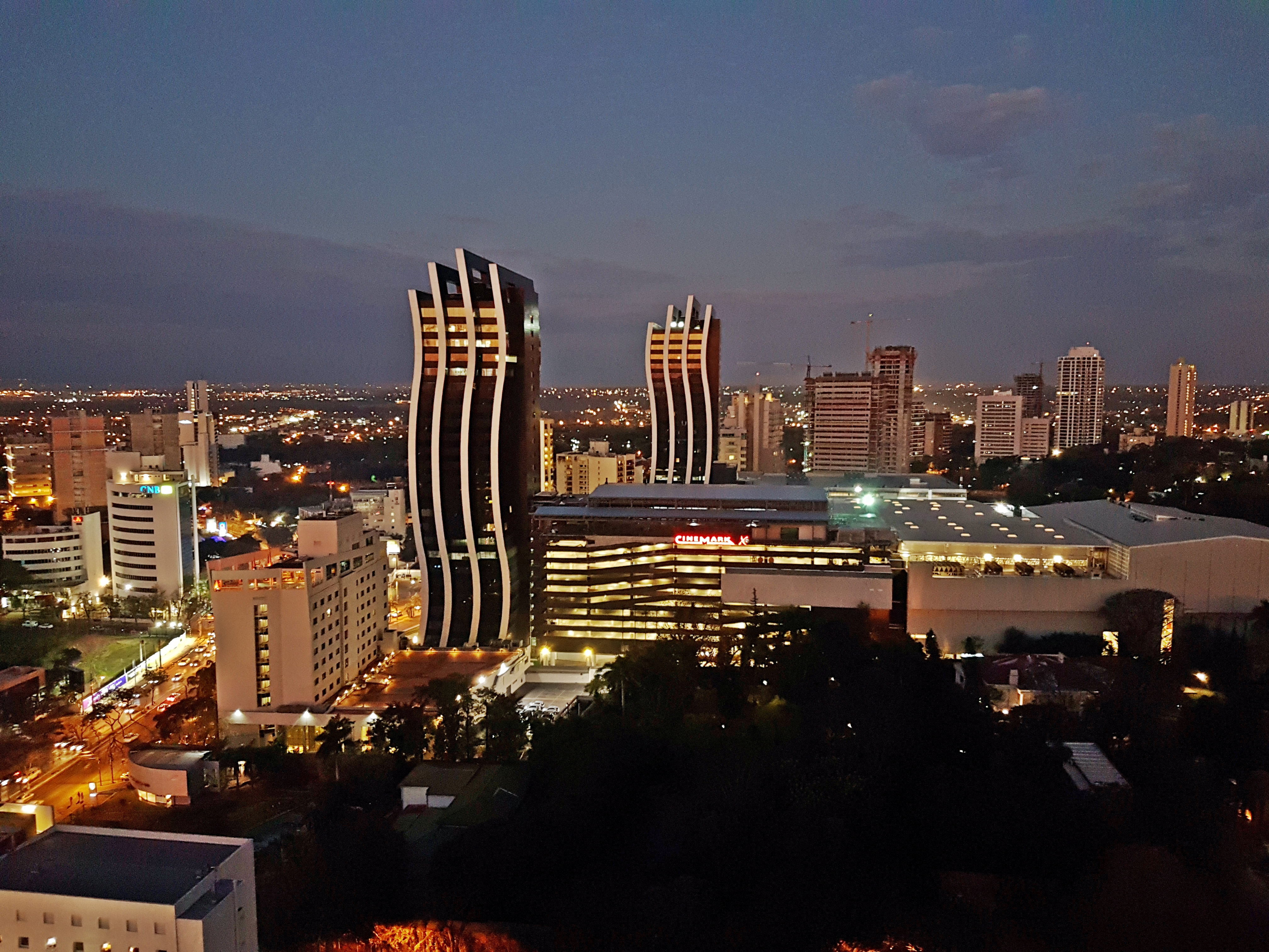 Financial District of Paraguay's capital, Asunción.